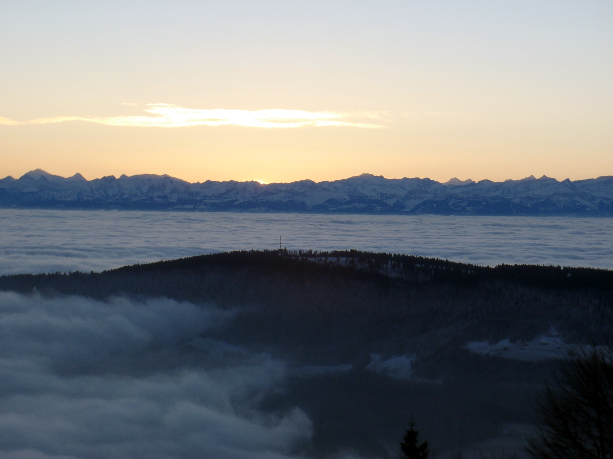 View on Alpes from Piquemiette